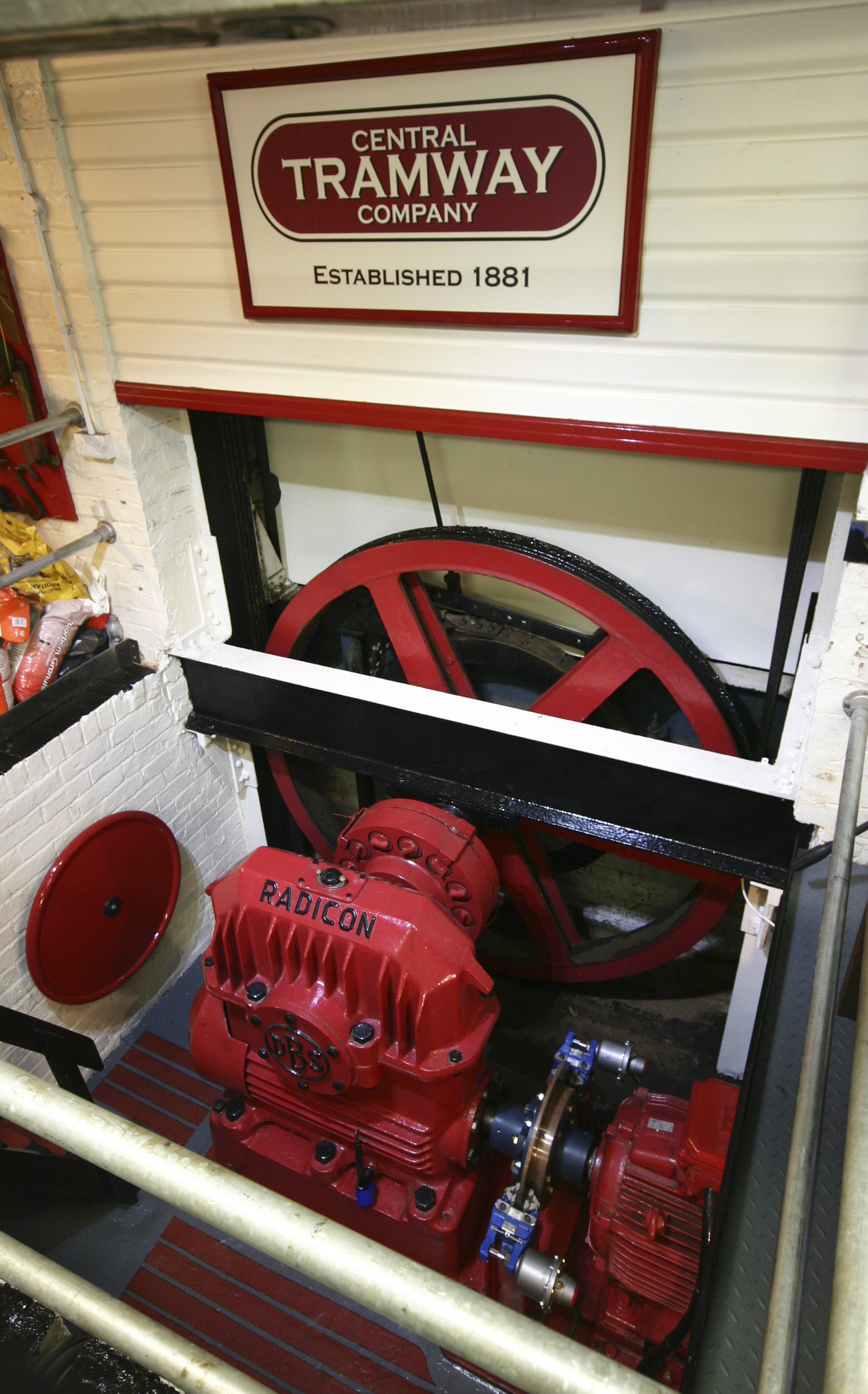 Central Tramway Company, Scarborough, Ltd. Victorian cliff railway built in 1881.